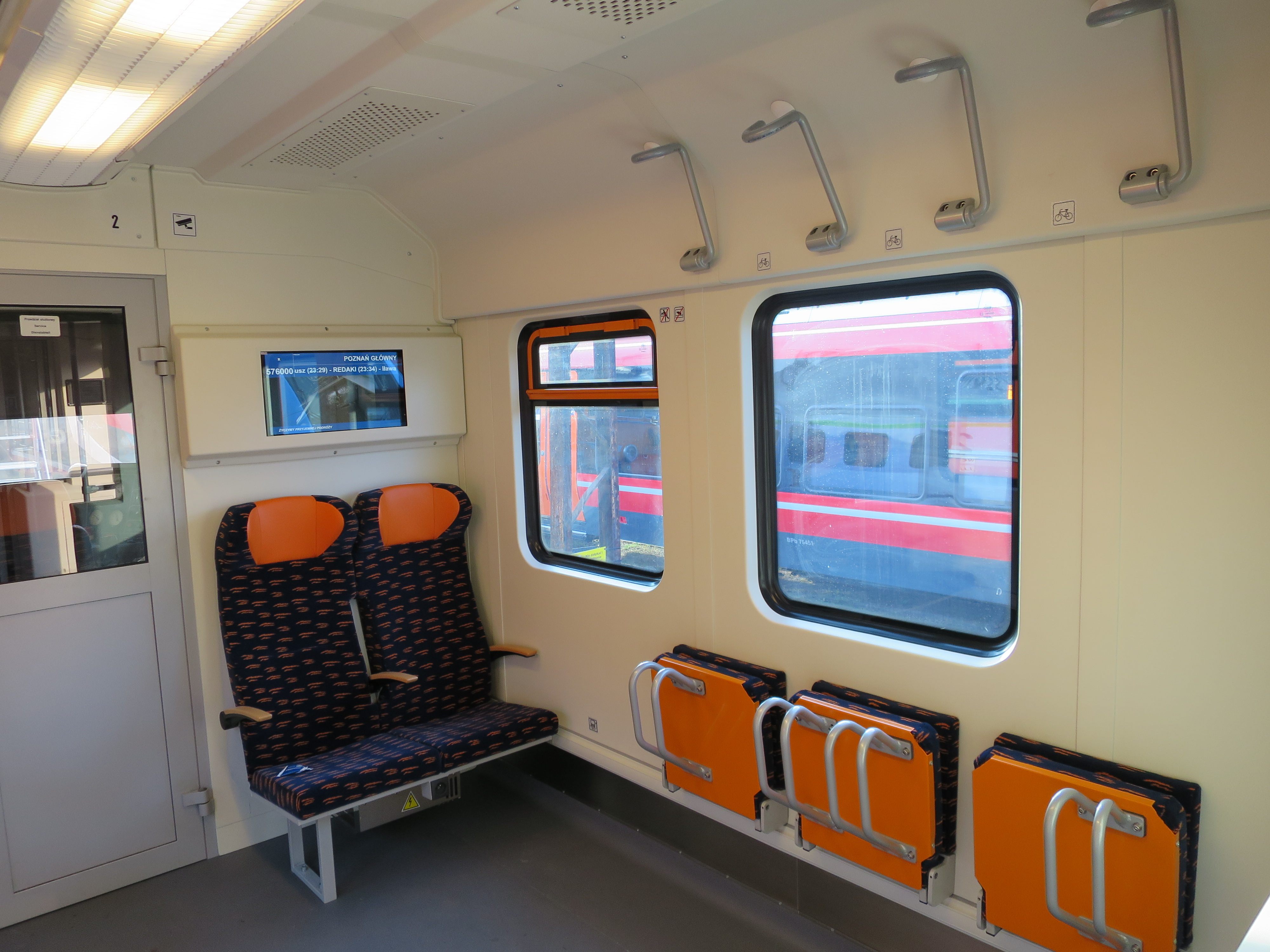 The making of this document was supported by Wikimedia Polska Association, within Wikigrant no. WG 2017-44. EN57FPS